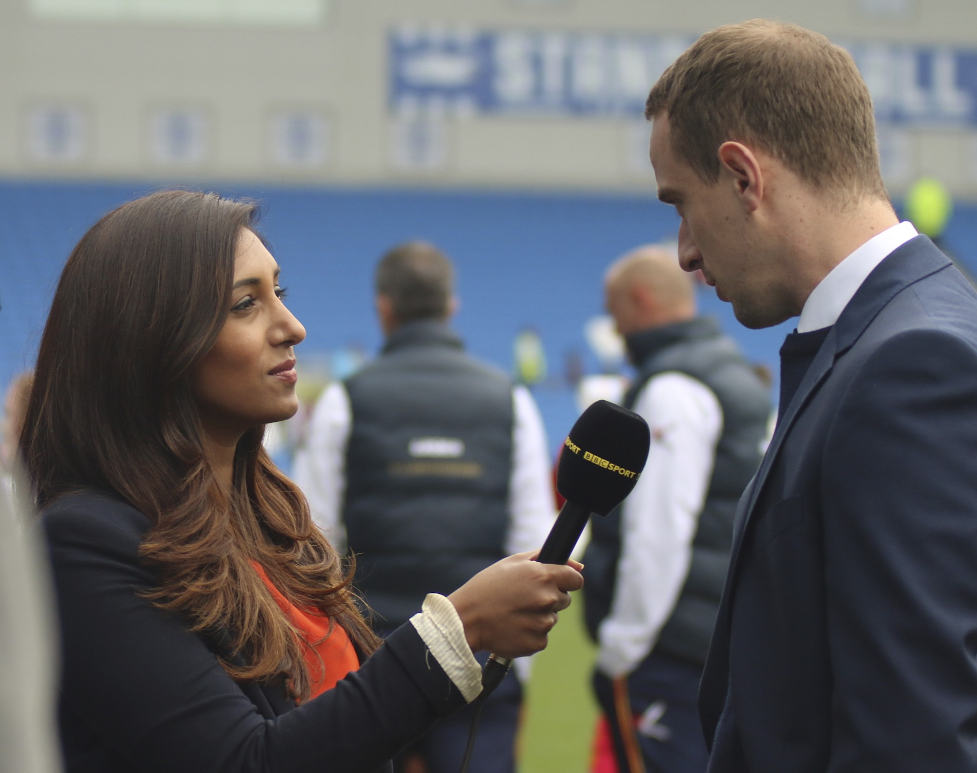 BBC reporter Tina Daheley (L) interviews England women's football team manager Mark Sampson (R)